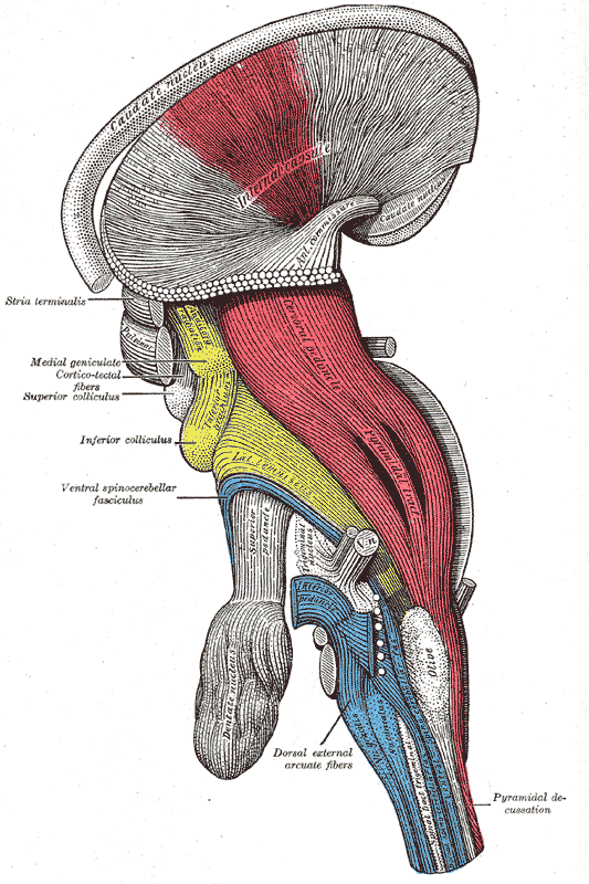 Gray Plate 684